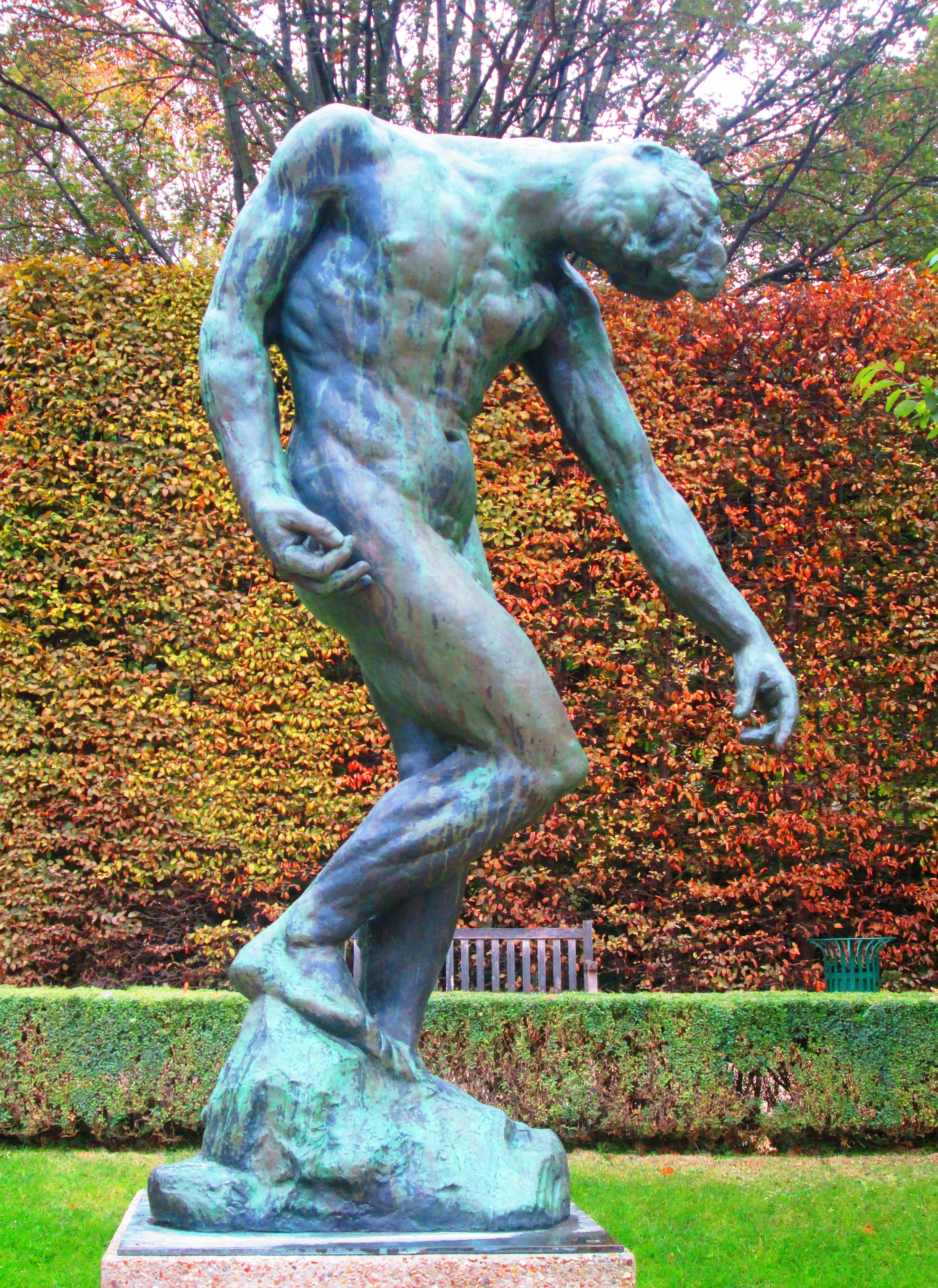 L'Ombre ("The Shade") began as a figure in triplicate on Auguste Rodin's large work La porte de l'Enfer ("The Gates of Hell") before it evolved into both Les Trois Ombres ("The Three Shades") and a separate sculpture of a single figure. This version was cast from a 1904 model. (Source: Musée Rodin)